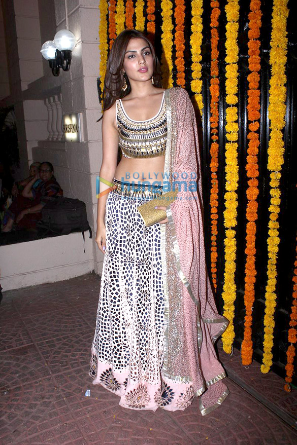 Rhea Chakraborty graces Ekta Kapoor’s Diwali bash